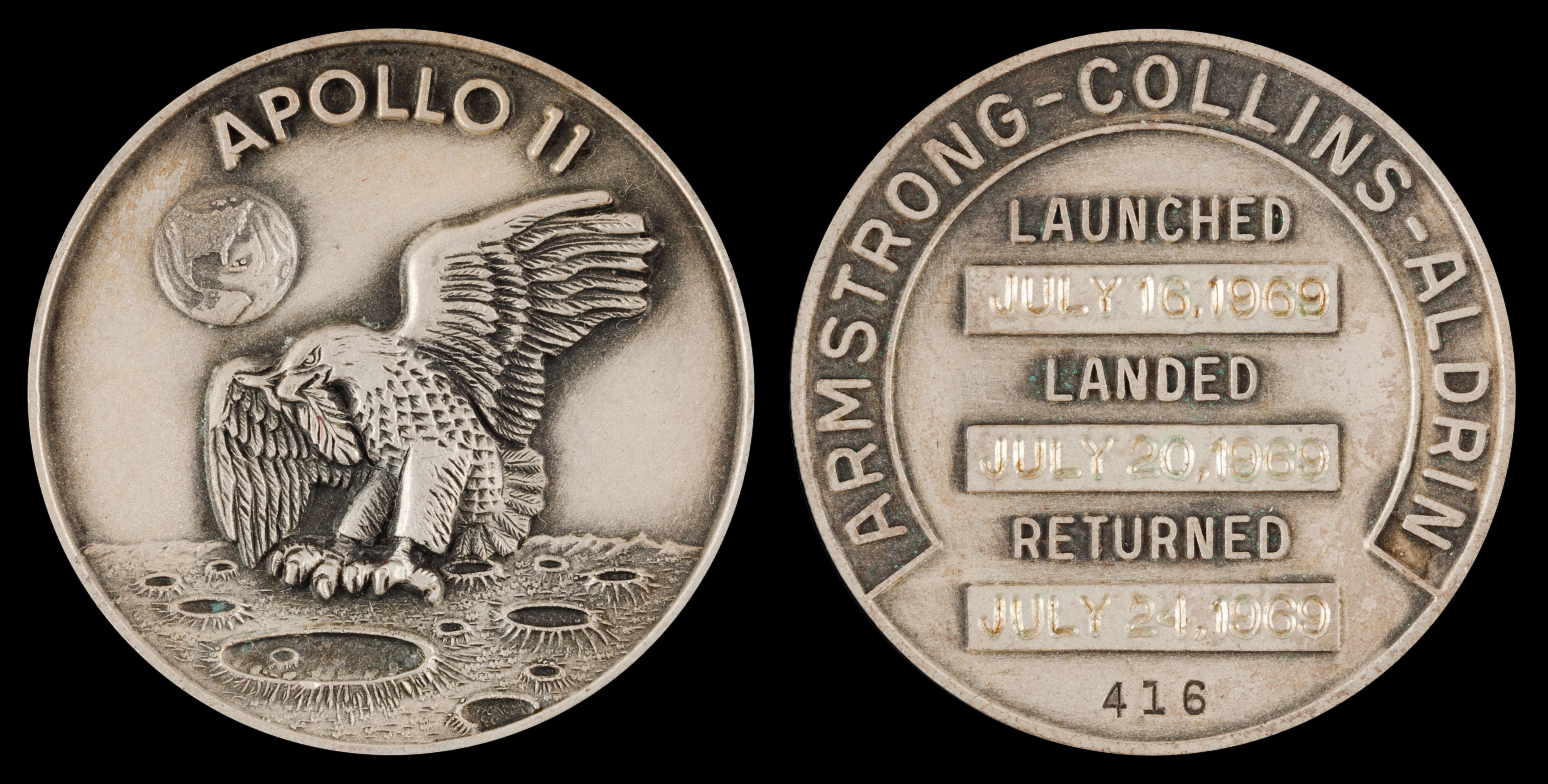 Apollo 11 (S69-34875, June 1969) space-flown silver Robbins medallion (SN-416) presented to Wally Schirra by Neil Armstrong(6095-40078)